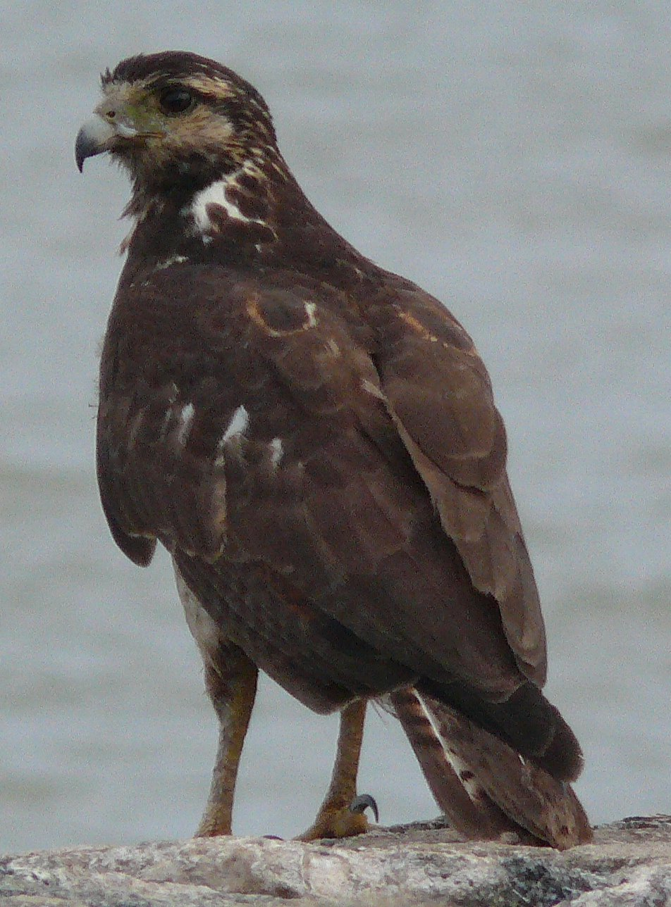 Long-winged Harrier on the banks of the Kourou River, French Guiana.